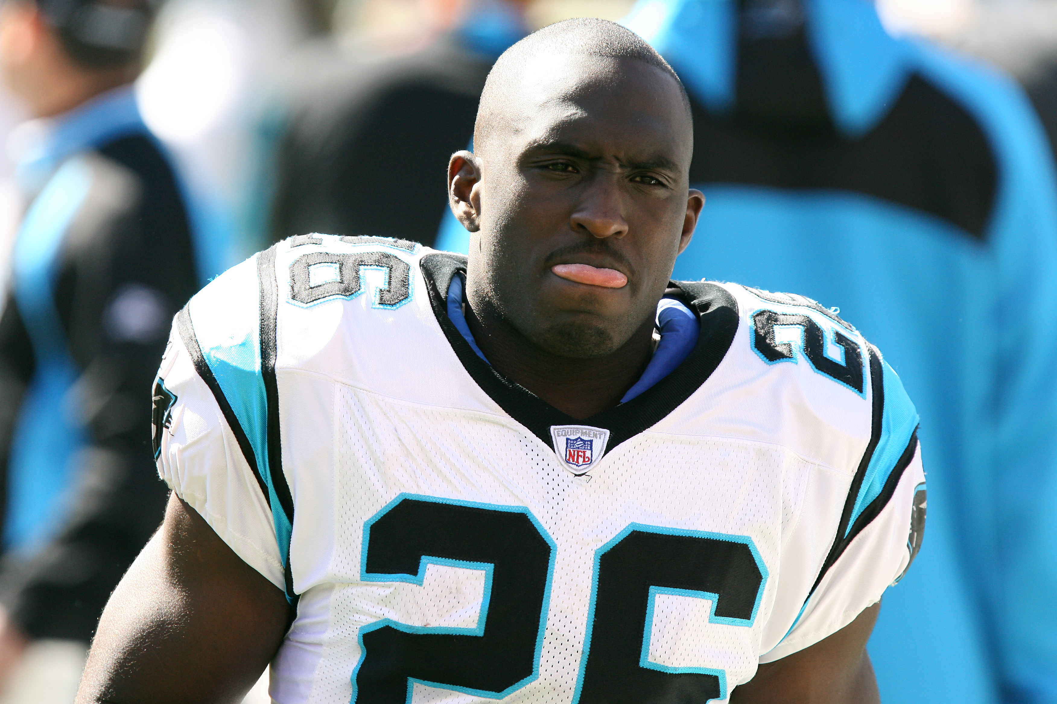 DeShaun Foster, American football running back for the Carolina Panthers (at time of photo)